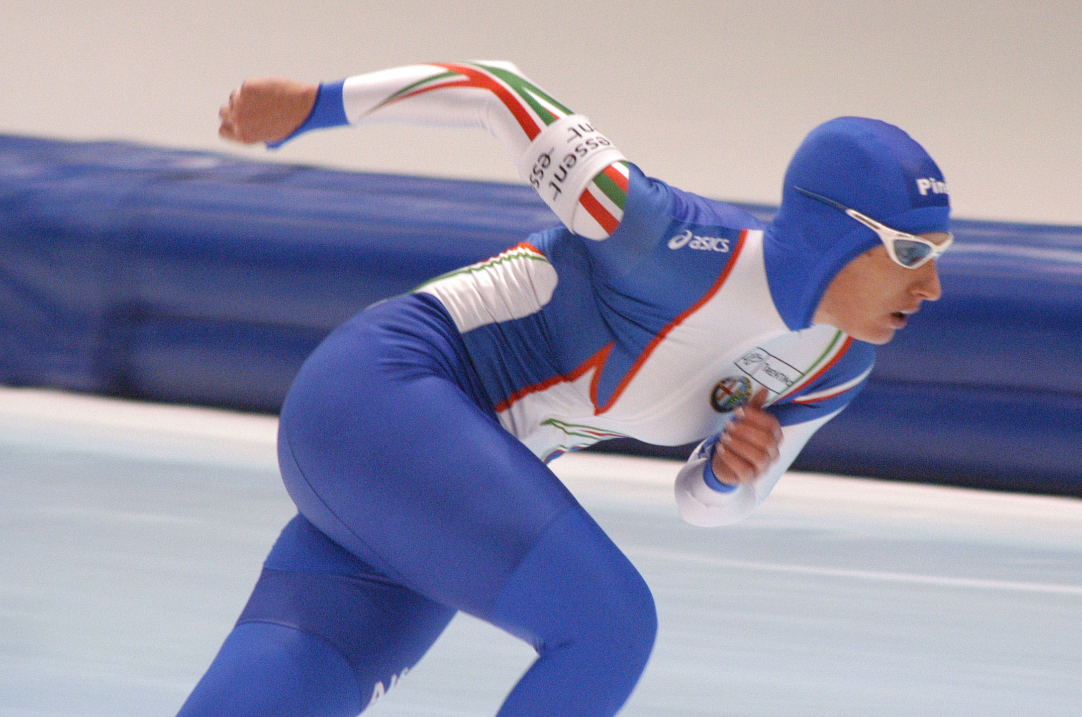 Chiara Simionato (ITA) in action at a World Cup Speedskating in Heerenveen, the Netherlands